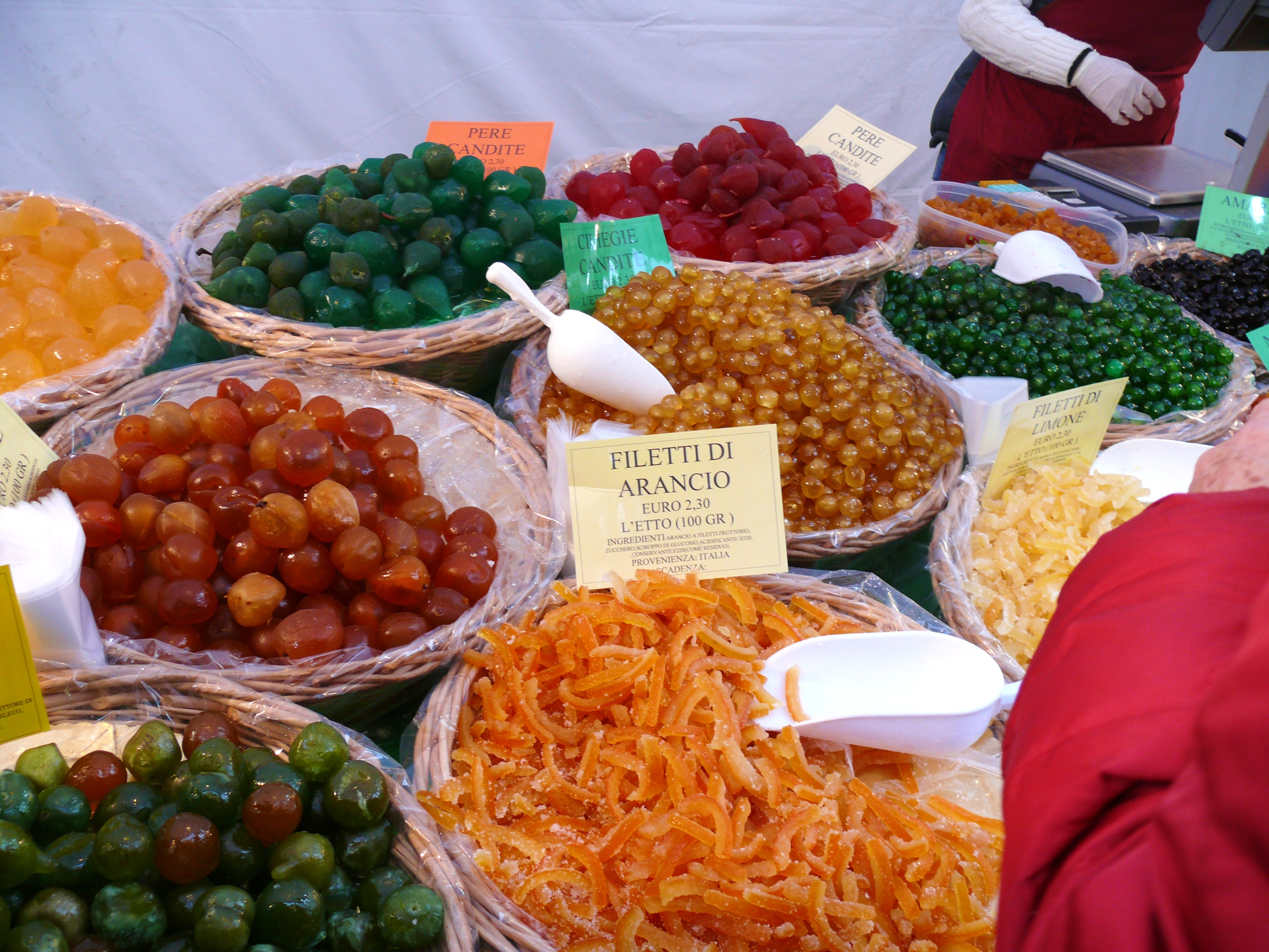 candied fruit in a market in Italy